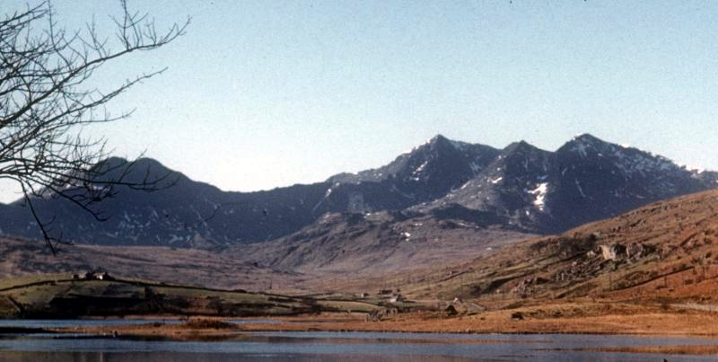 Recoloured from image on Wikipedia